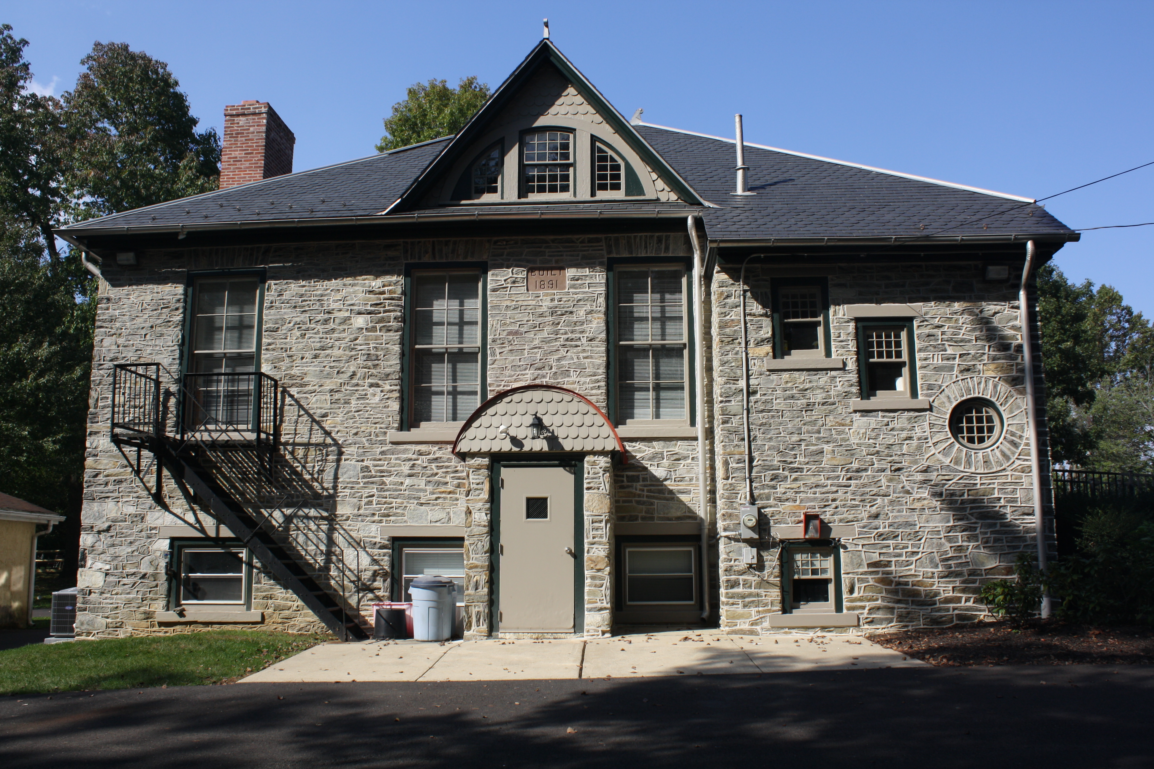 Langhorne Manor School Also known as: Langhorne Manor Borough Hall locates on 618 Hulmeville Ave., Langhorne Manor, Pennsylvania